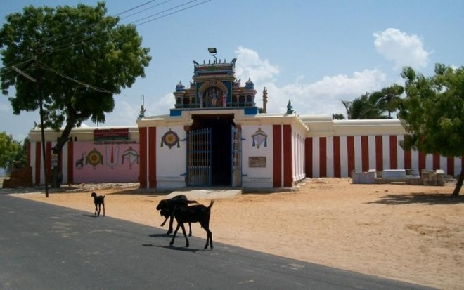 Kulasekarapatinam Perumal Temple